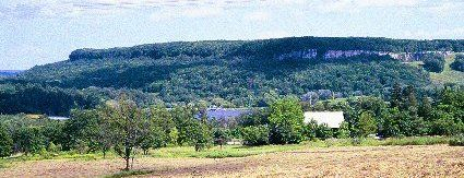 Rattlesnake Point along the Niagara Escarpment This is a picture of Rattlesnake Point along the Niagara Escarpment during a hike of the Bruce Trail. It was taken by David Sky on 35mm film which was then scanned to JPG.